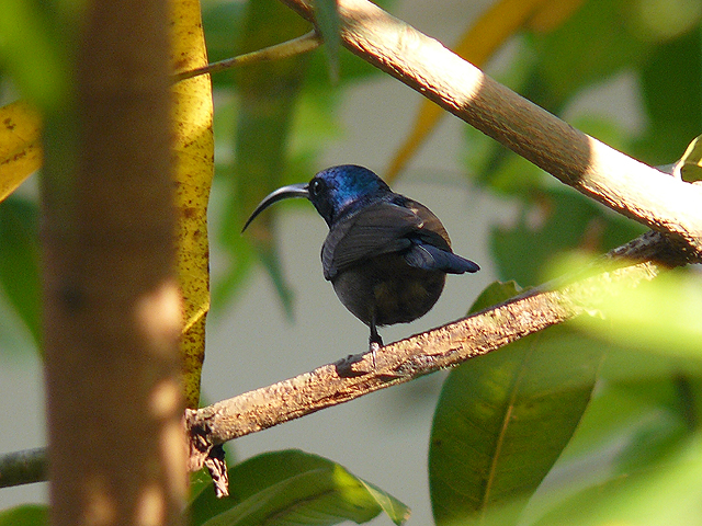 A male Loten's Sunbird with its lengthy intimidating scimitar like beak seen roosting on a young mango tree.